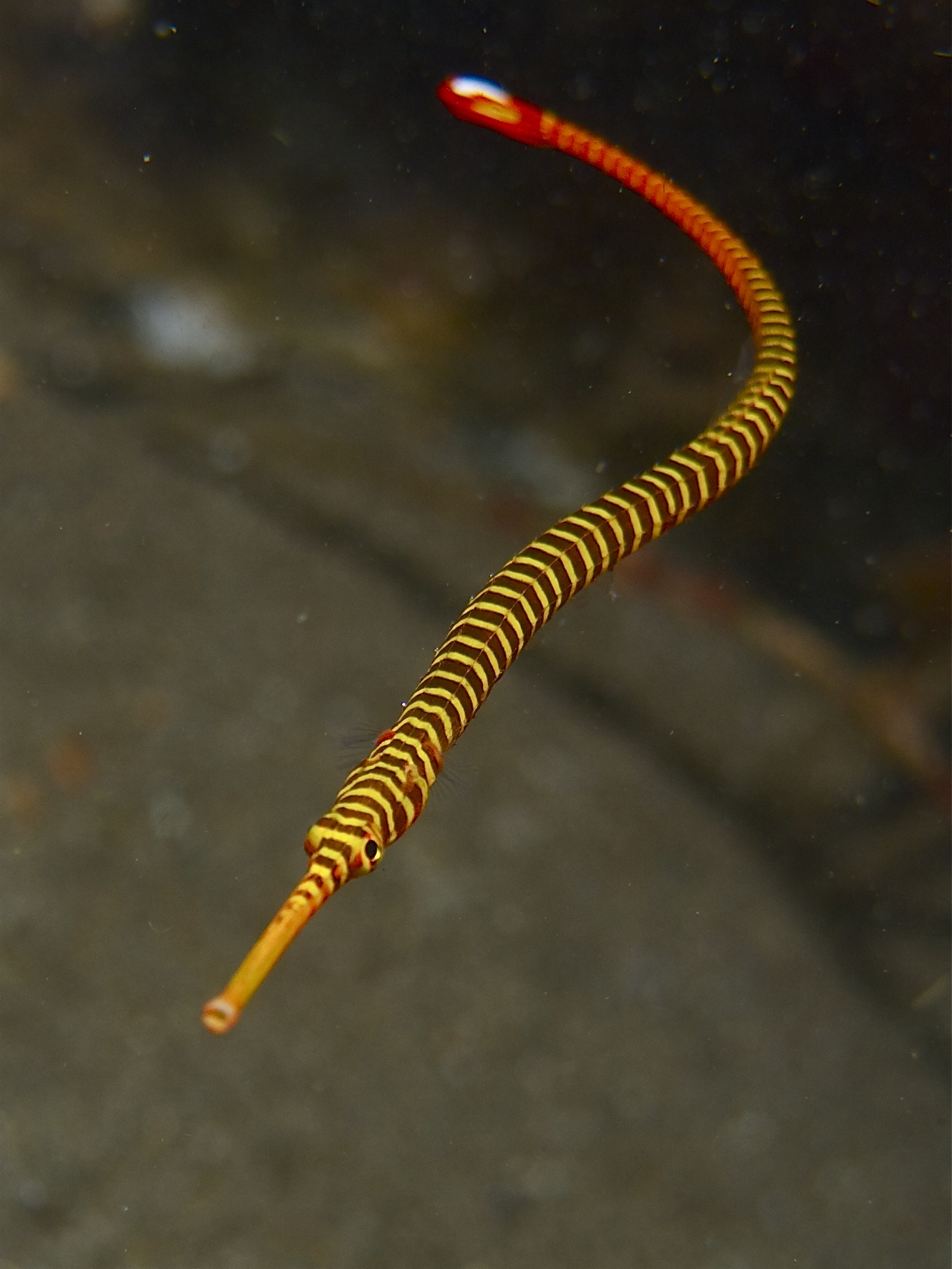 Dunckerocampus pessuliferus (named Doryrhamphus dactyliophorus) in Dauin, Bisayas , Philippines.